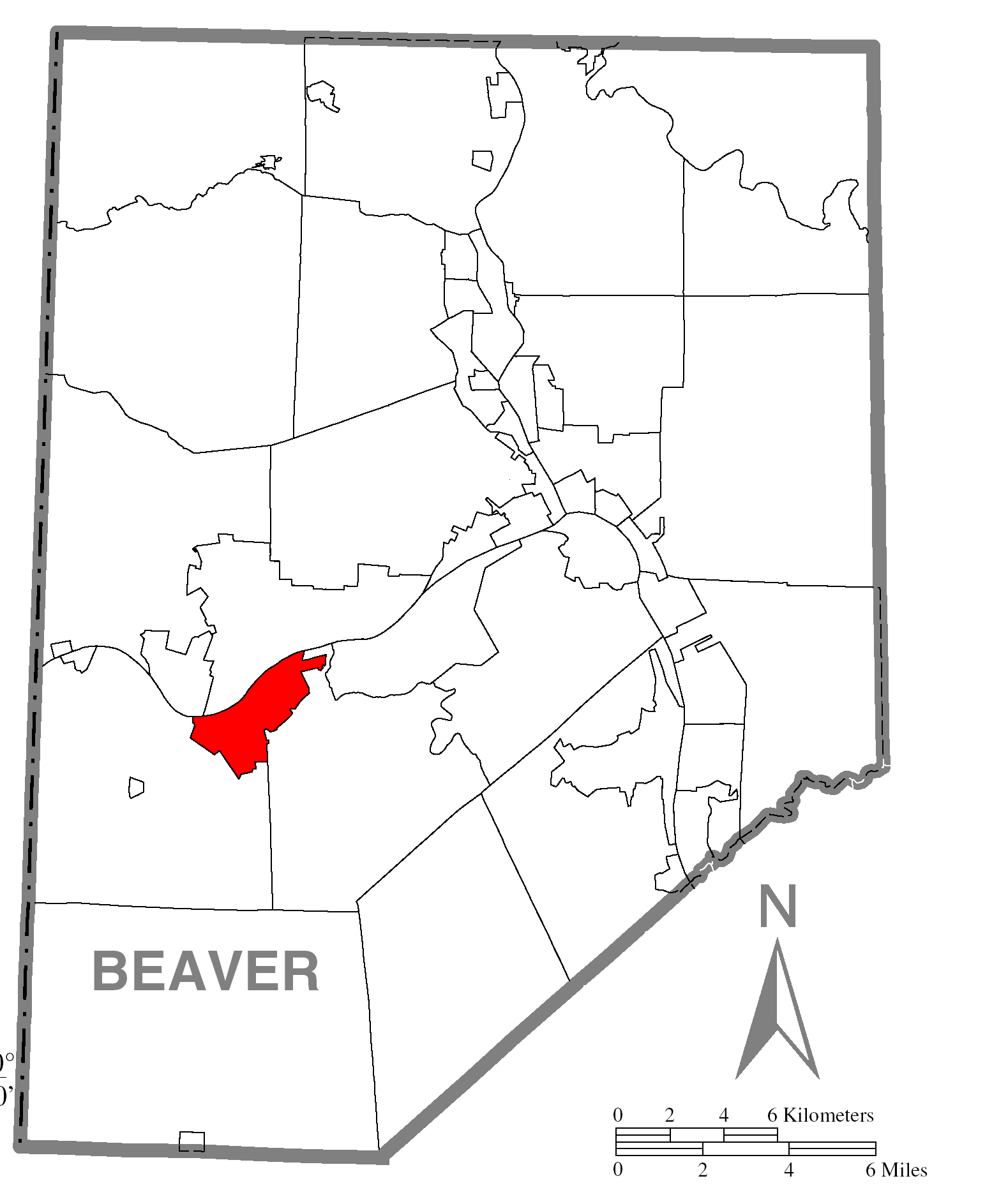 A map of Beaver County showing Shippingport, Pennsylvania (alternate) highlighted on the map.